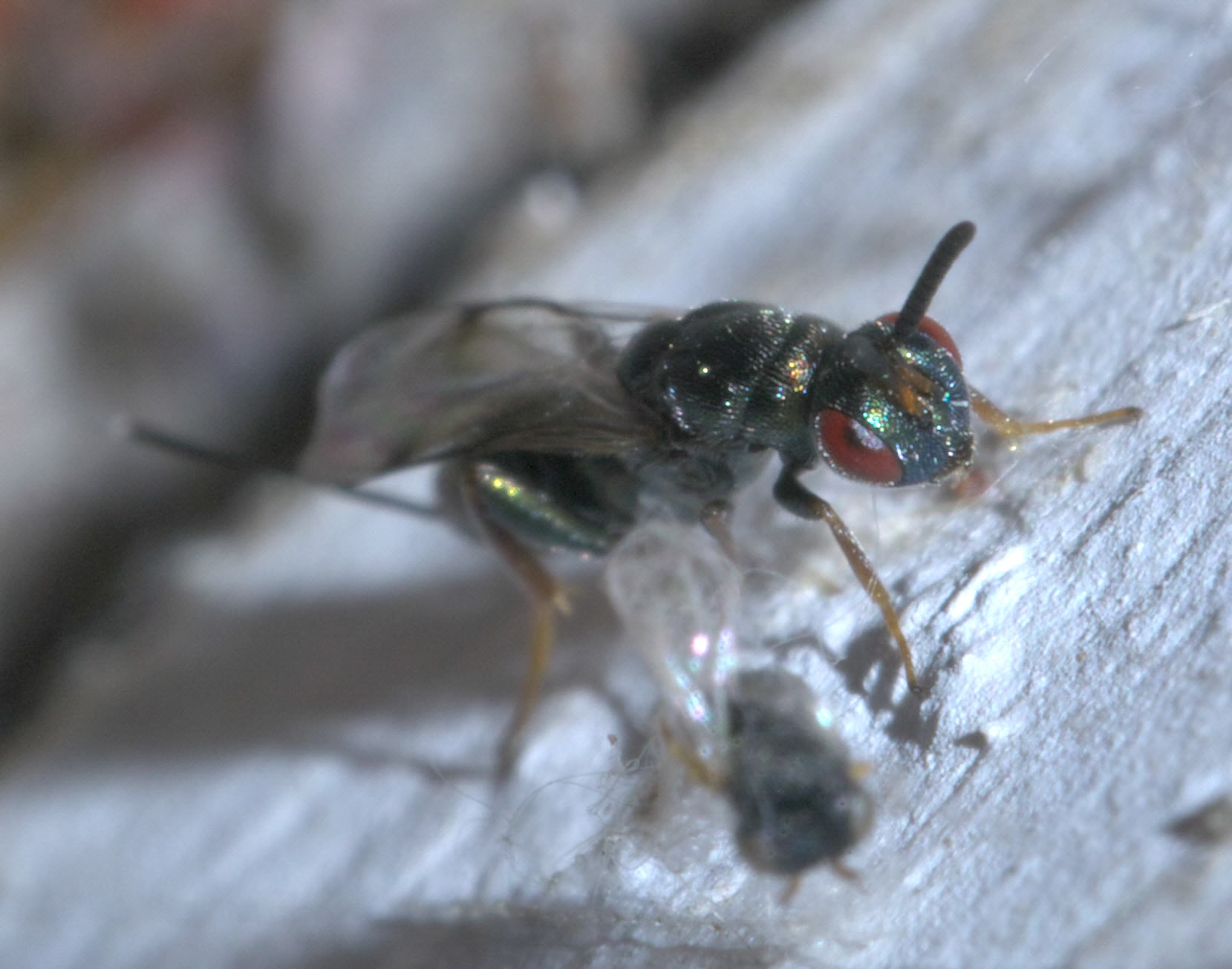 Monodontomerus, Superfamily: Chalcid Wasps, ID Confidence: 98